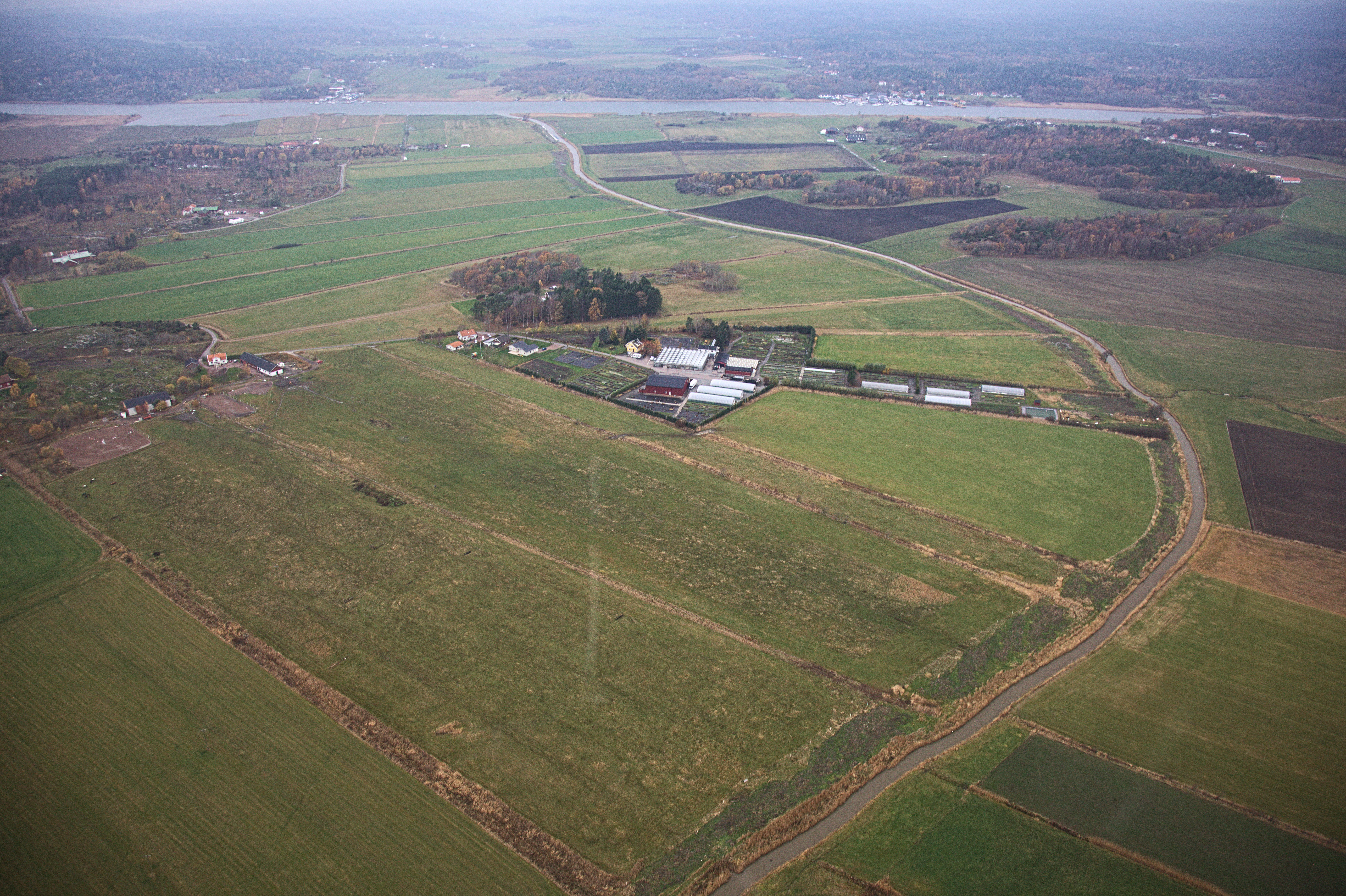 Photo taken on a helicopter over Gothenburg. On photo is the creek Kvillen on Hisingen. Kvillen is a bifurcation and this is the northern part running into Nordre älv. Center in the photo is the farm Norgården.